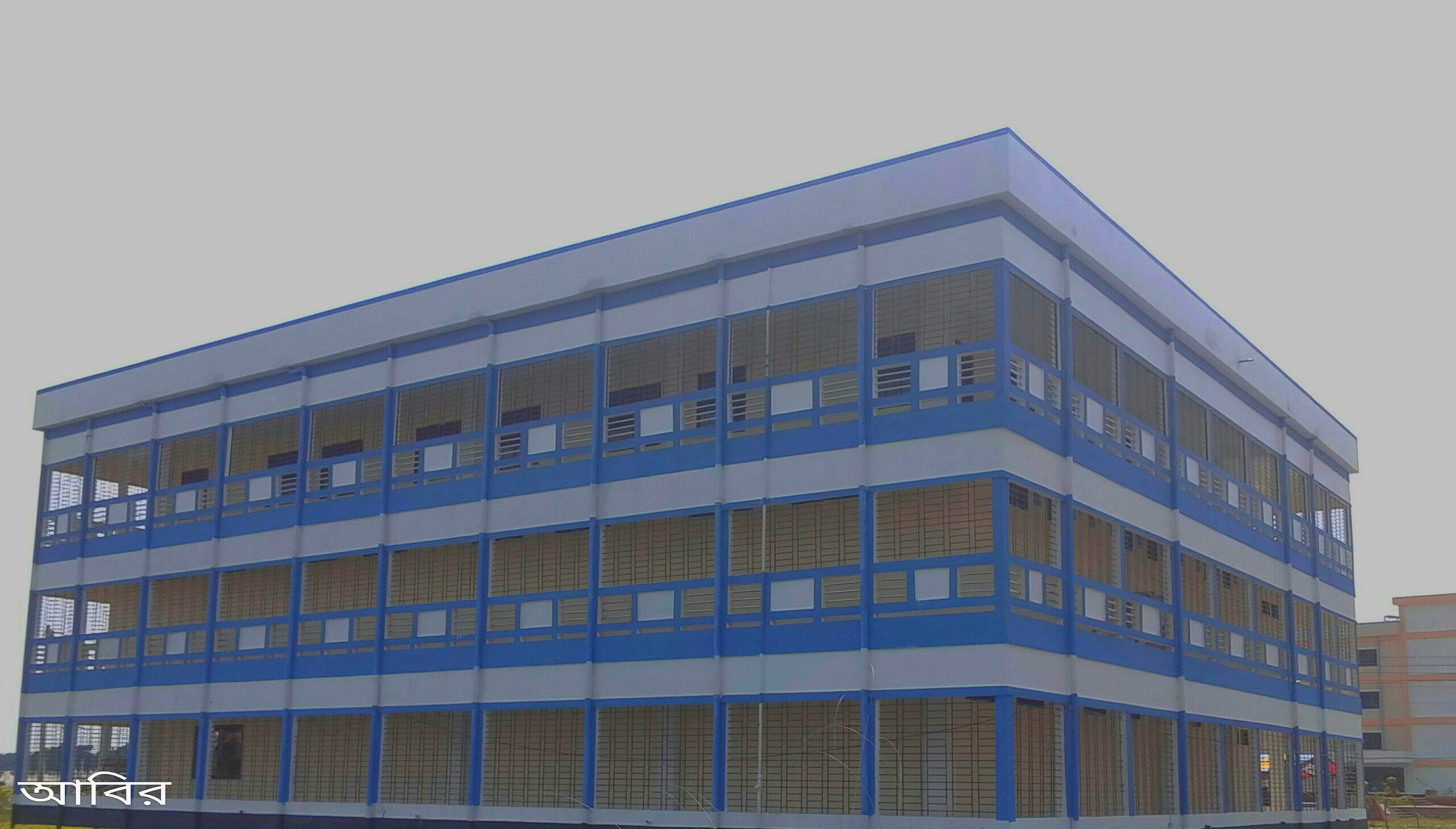 কেন্দ্রীয় গ্রন্থাগার